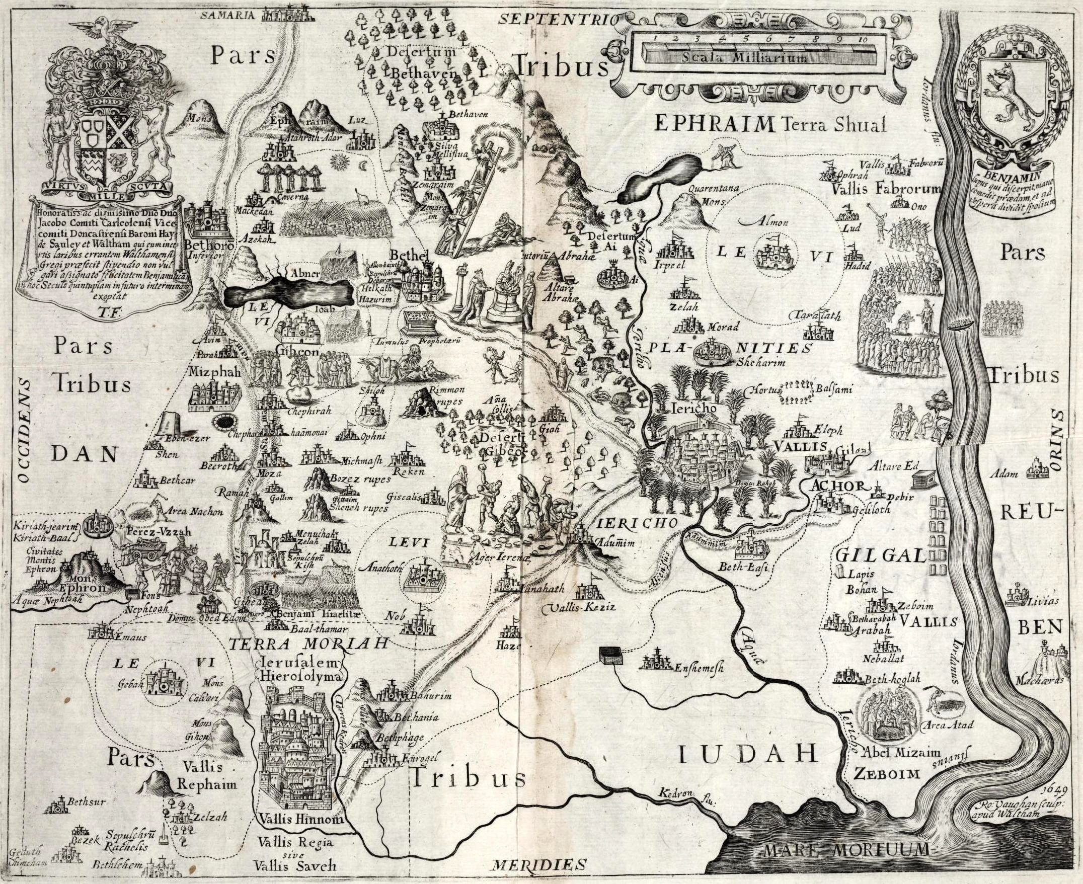 Tribe of Benjamin in the Promise Land